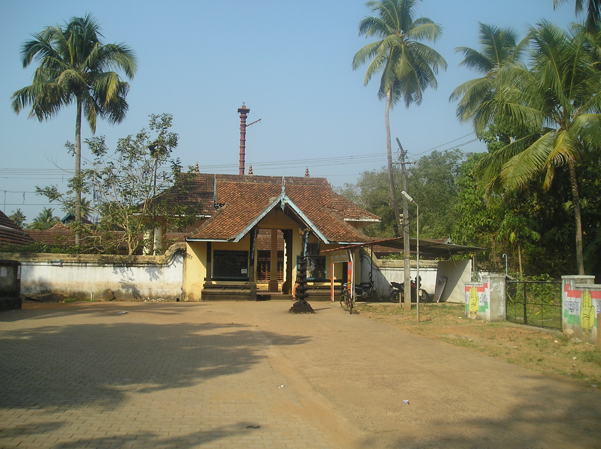 Divyadesam